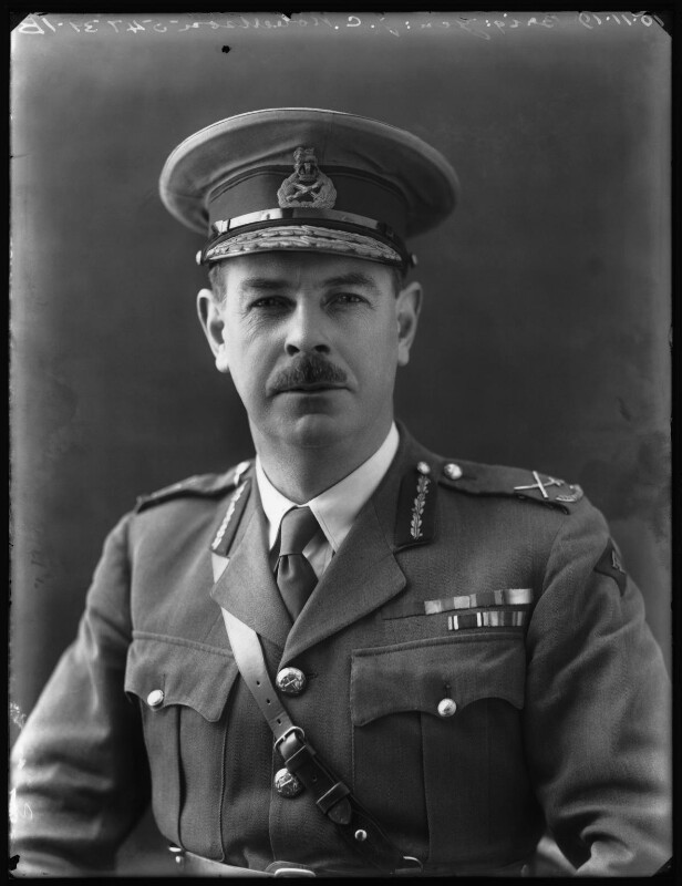 Portrait of Brigadier General James Campbell Robertson by Bassano Ltd, 10 November 1919